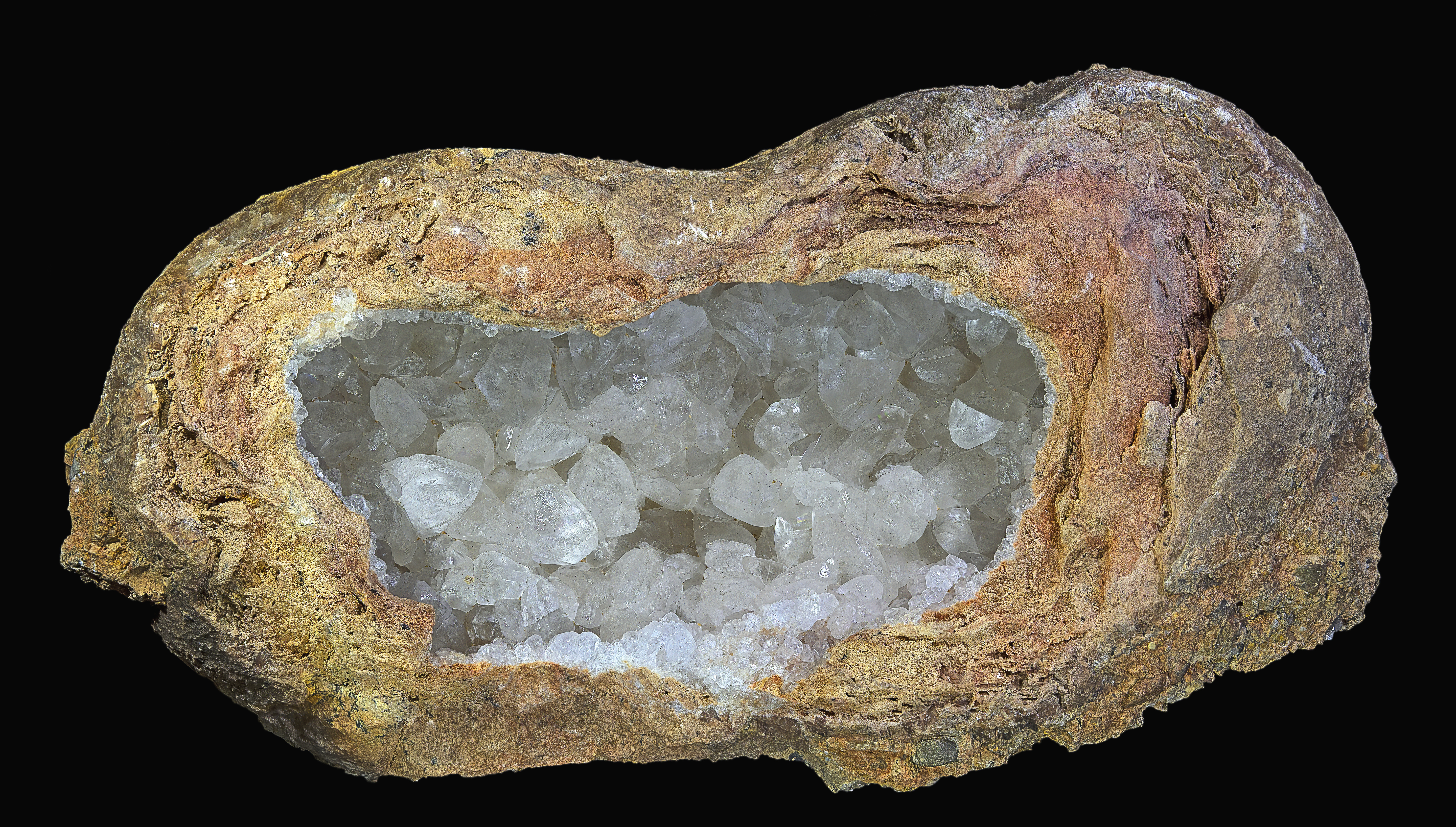 Calcite Locality: Pau, Pyrénées-Atlantiques, Aquitaine, France Size: 22x11.5x8 cm